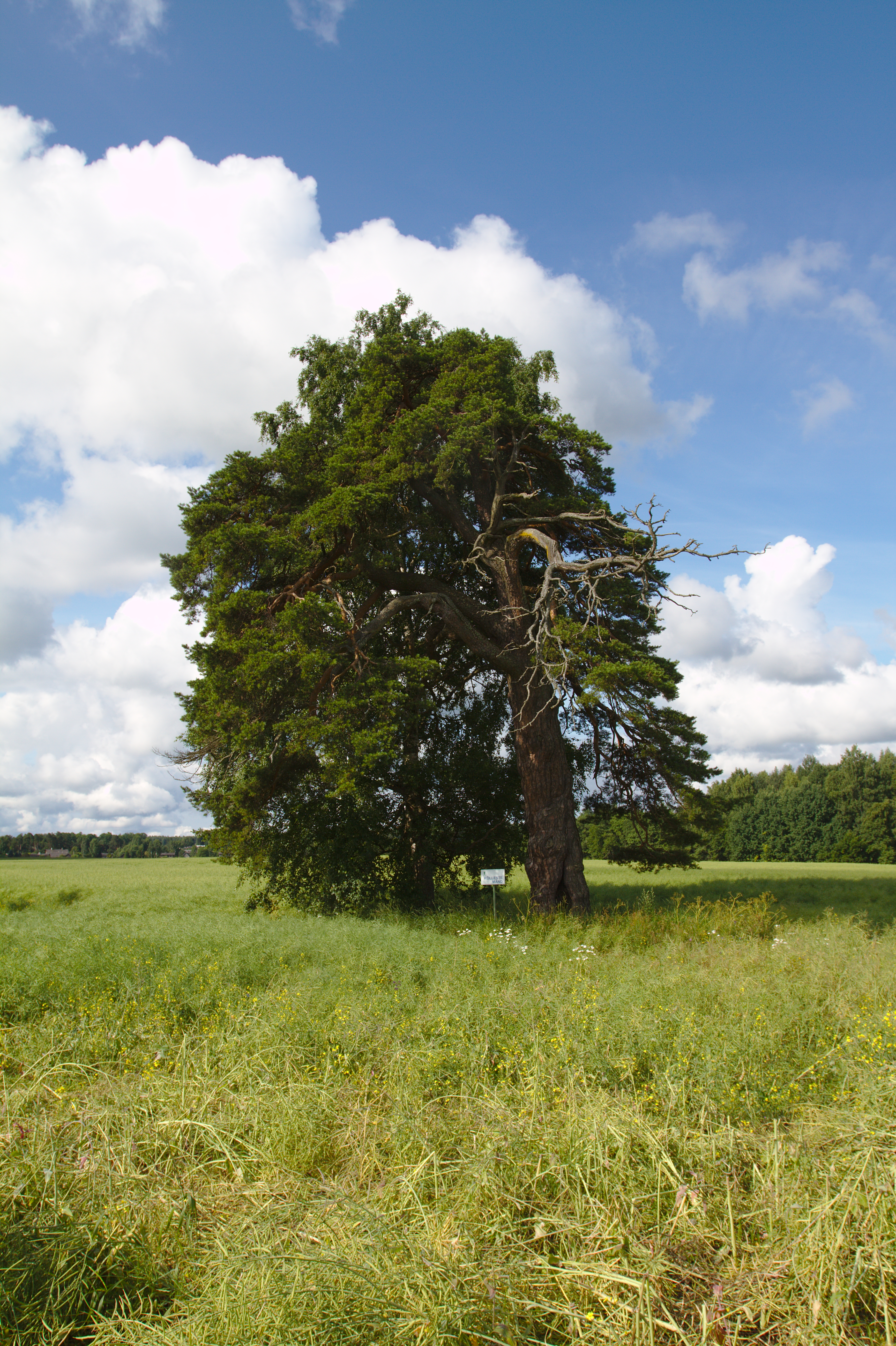 Kõlleste pine in Estonia